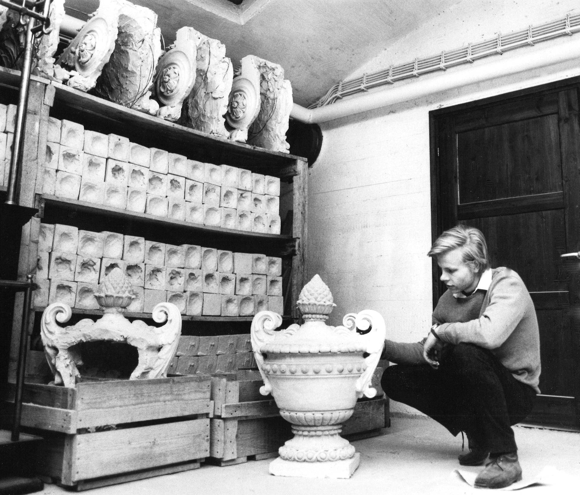 Photograph of the Finnish interior architect Markku Kosonen (1945–2010) as an art student, finishing decoration copied from the old Kämp hotel in Helsinki.